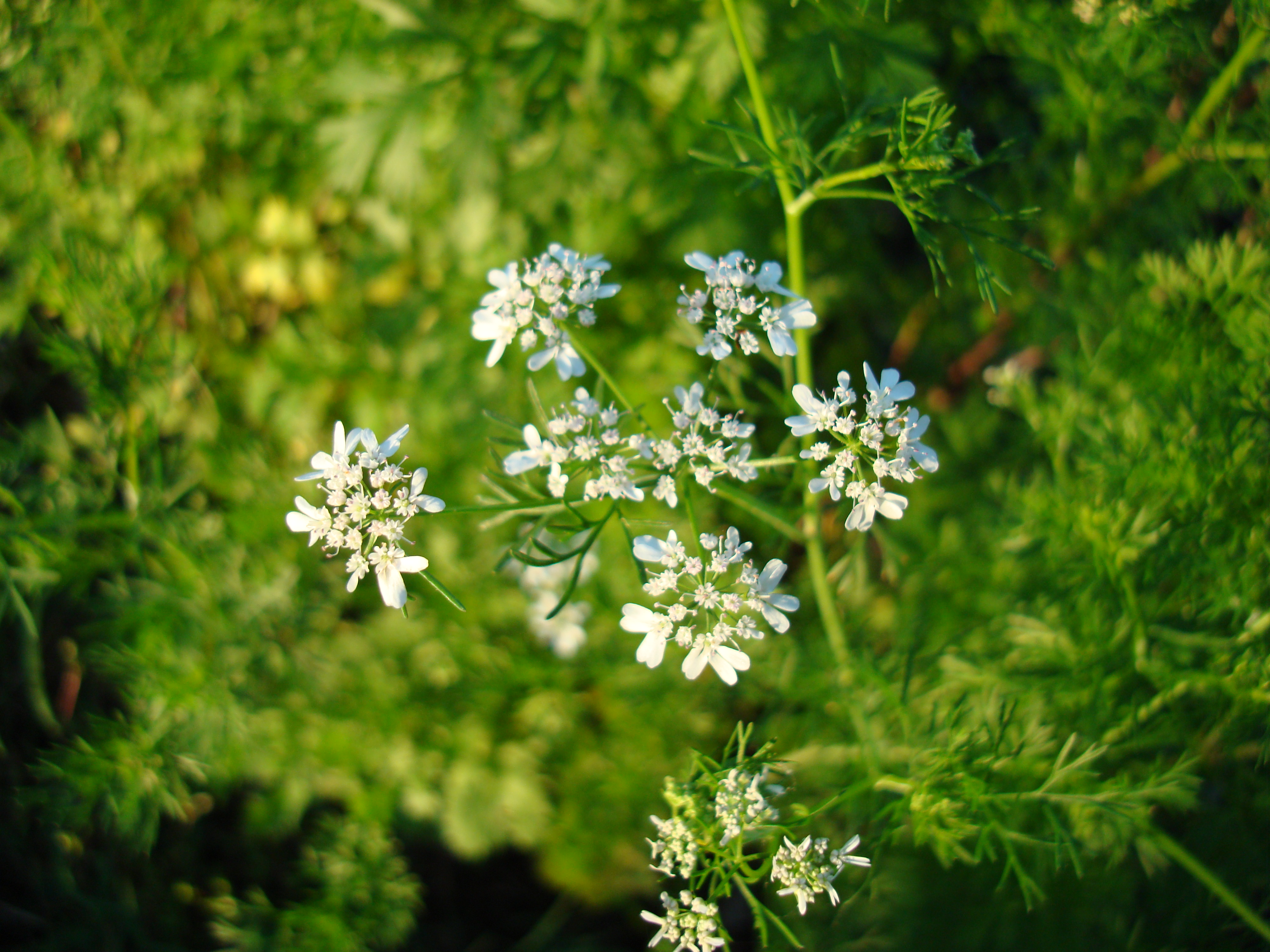 Coriandrum sativum blossoms, Virginia Beach, VA, USA